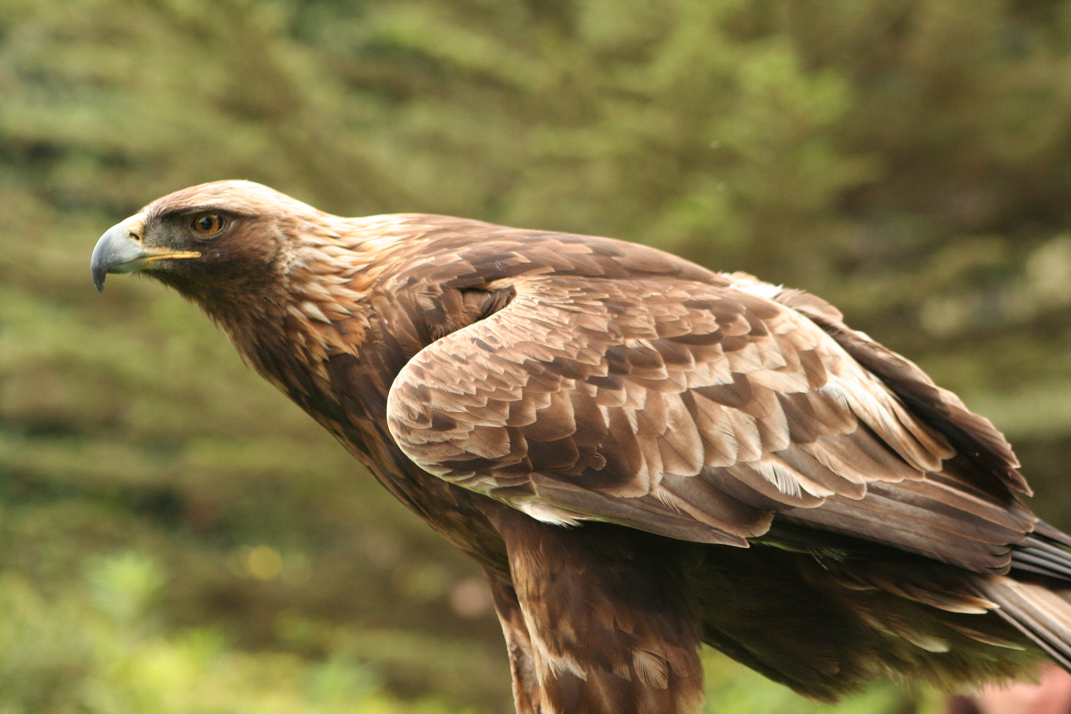 A Golden Eagle (Aquila chrysaetos), San Francisco ZooHawk with good wing